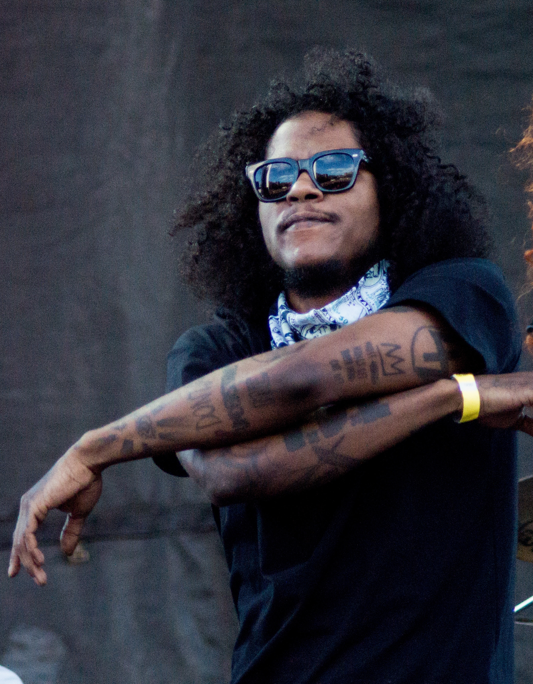 Ab-Soul performing at the AfroPunk festival in Brooklyn, New York in 2015.